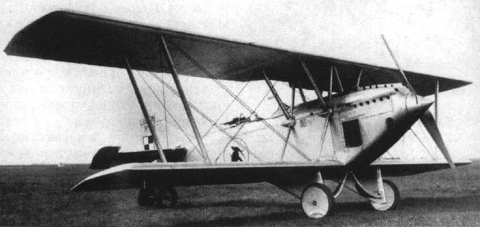 Polish reconnaissance/bomber plane Lublin R.VIII